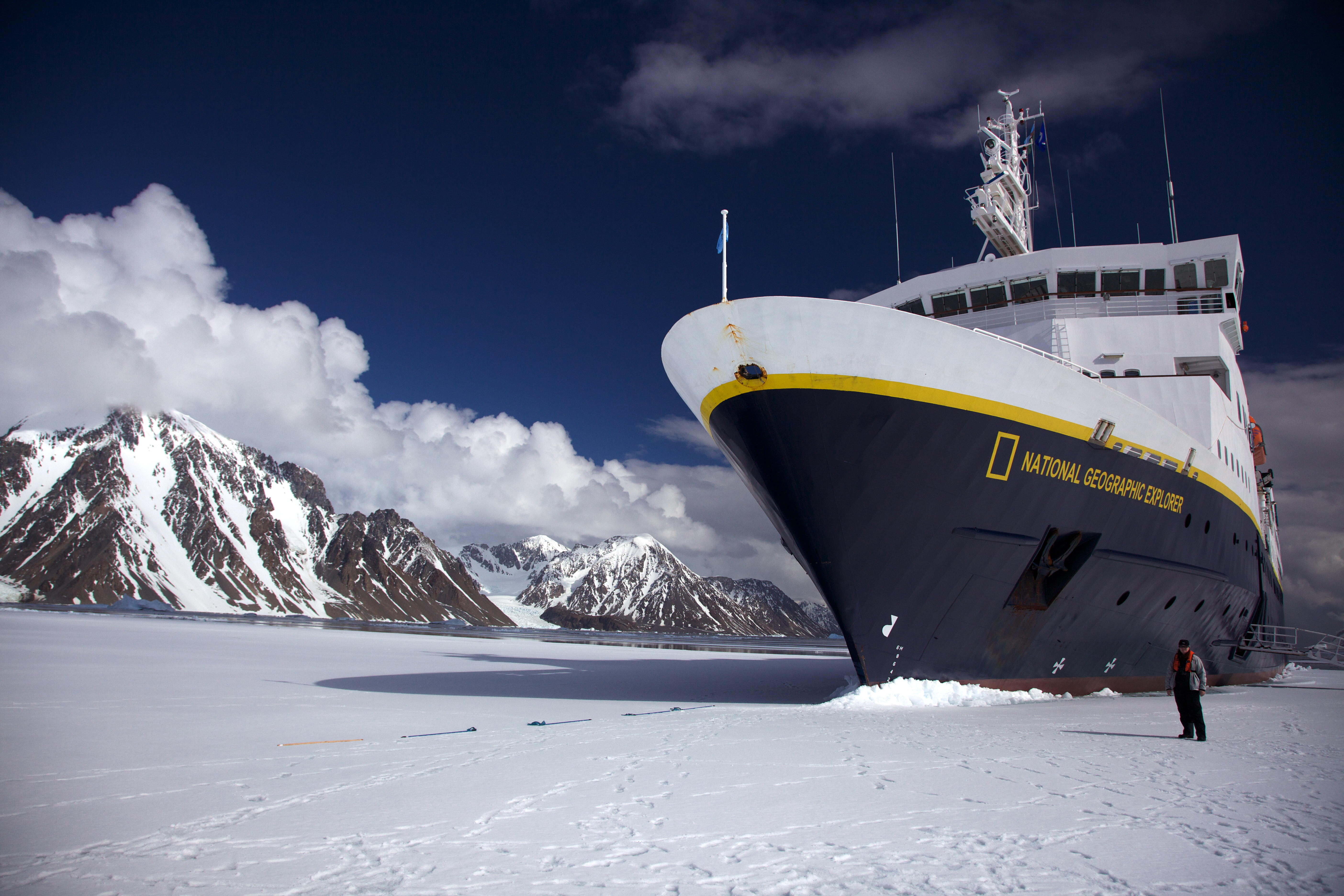 National Geographic Explorer in fast ice near the Antarctic coast.